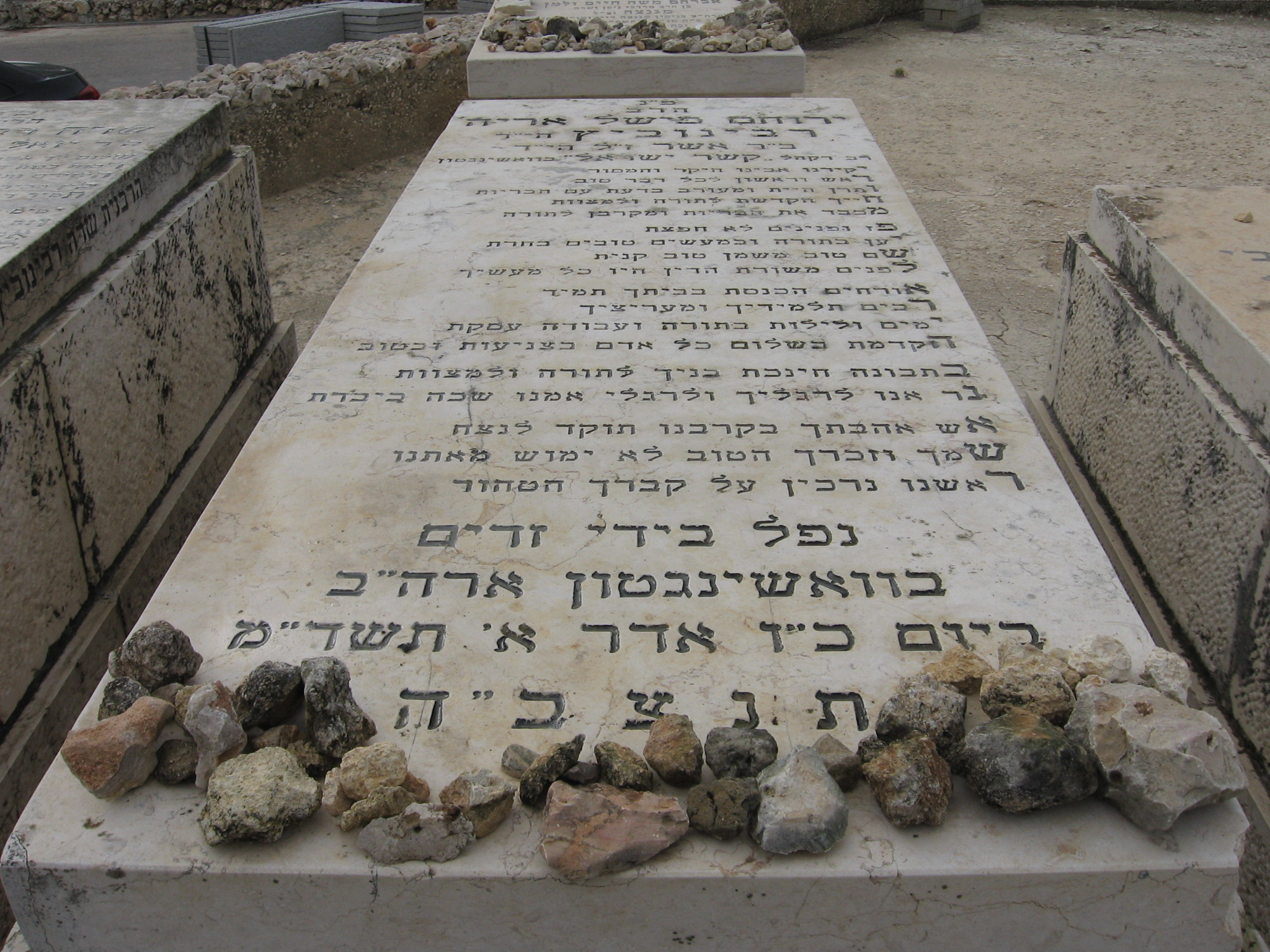 Rabbi Rabinowitz served Kesher Israel Congregation in Washington, D.C. from 1950 until his tragic death in 1984. He is buried in Israel.